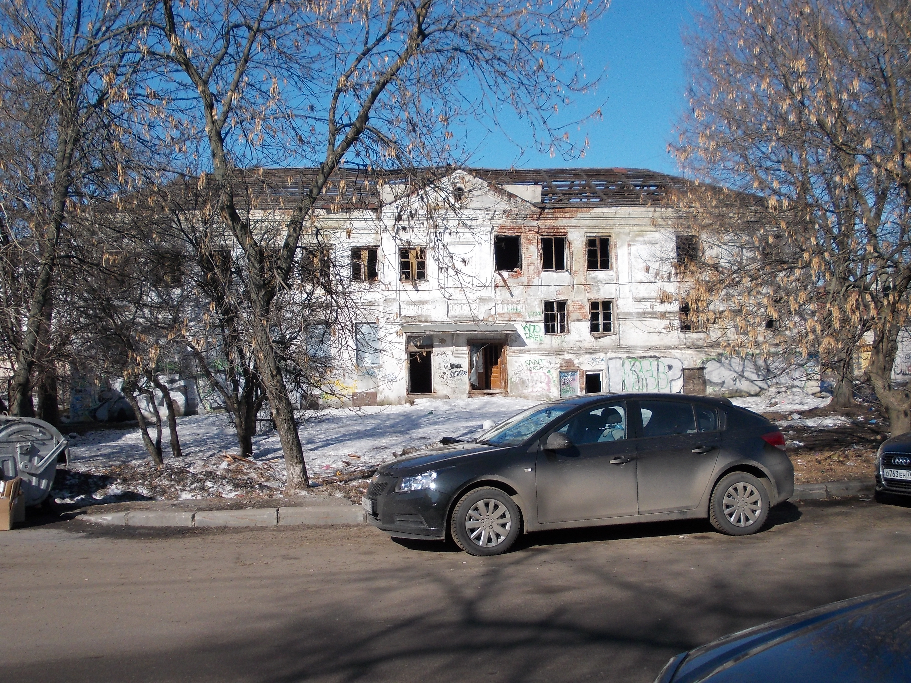 A building at the Kooperativnaya Street in Yaroslavl (No. 19).